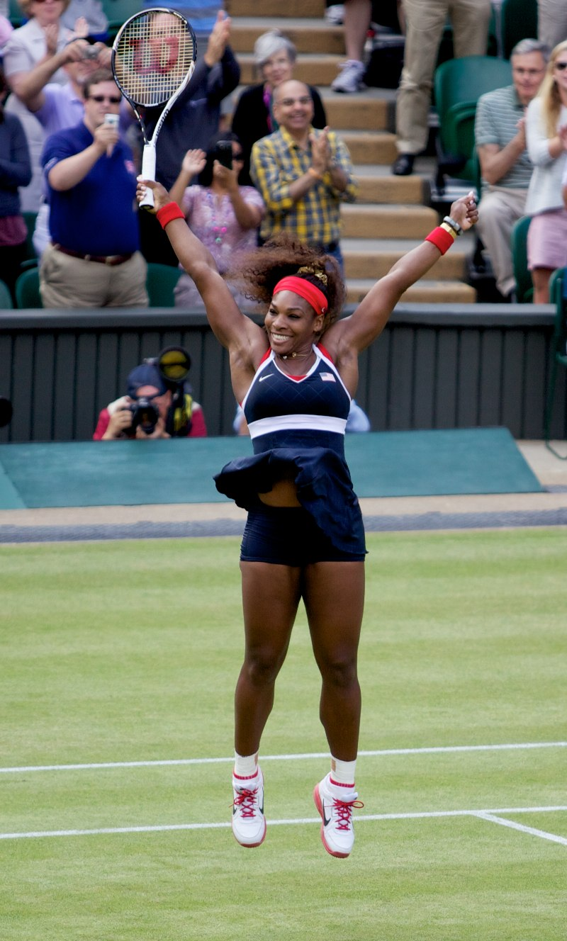 Serena jumps for joy after defeating her opponent, Maria Sharapova in the 2012 Olympic gold medal match. She won the game easily 6-0, 6-1.